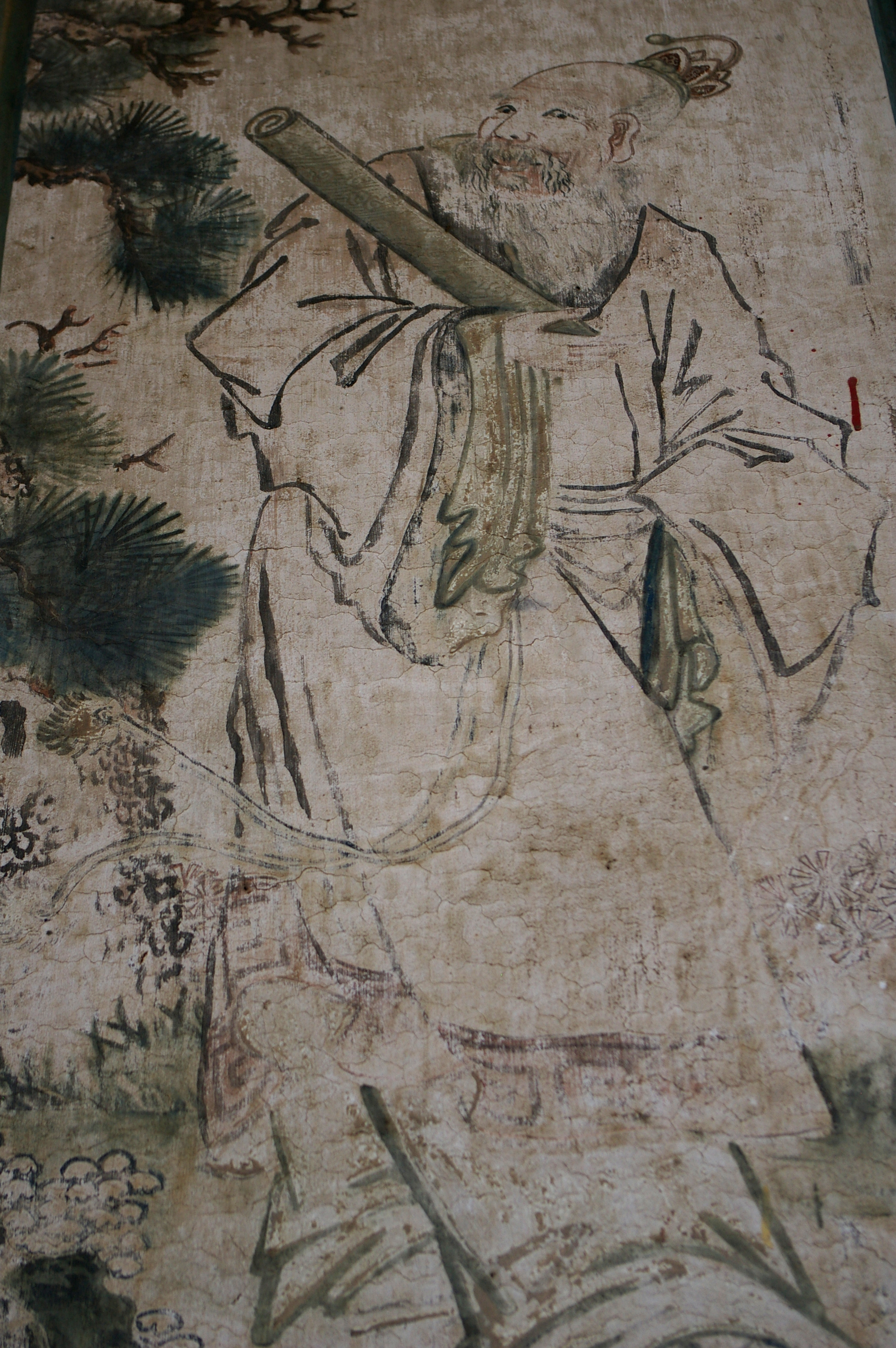 The painting on the wall of one of the pavilions of the Summer Palace in Beijing